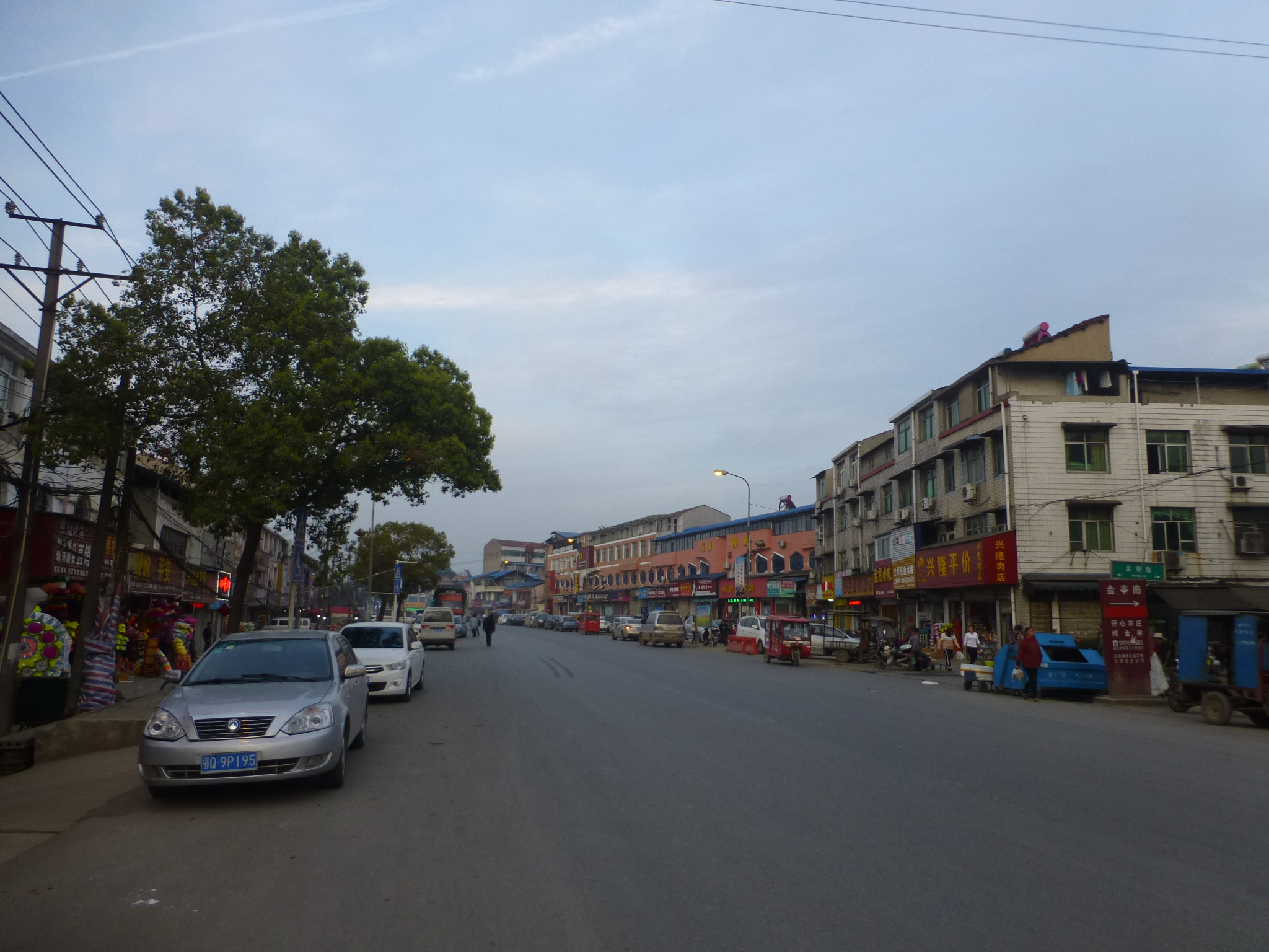 In or around Jinhe Village, Jinkou Subdistrict (formerly, Jinkou Town), Jiangxia District, Hubei